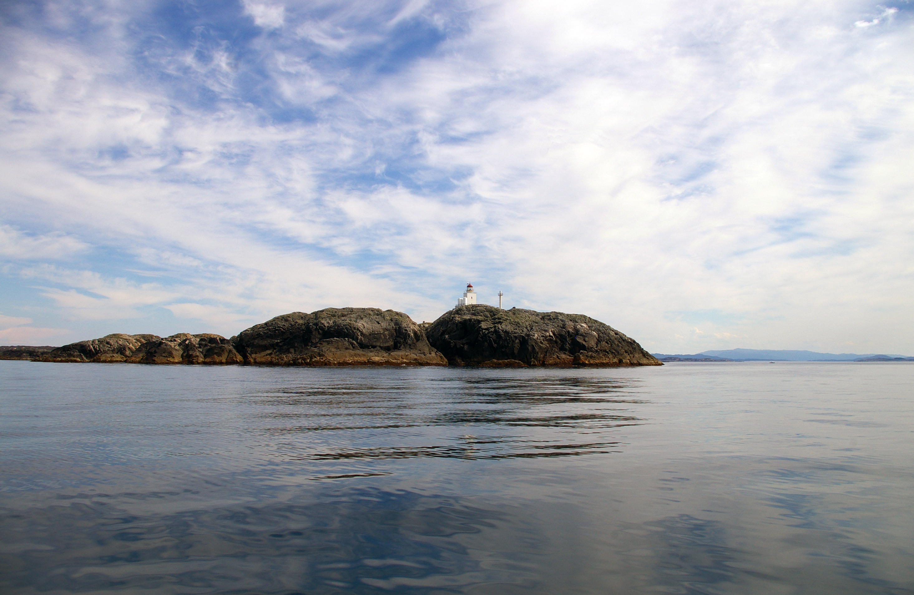 Marstein lighthouse a calm summer day in 2008. Austevoll, Norway.